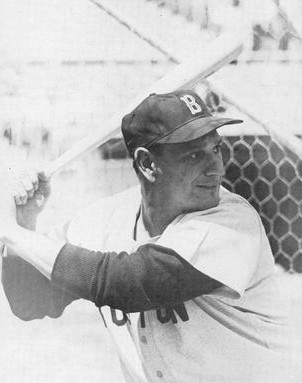 Professional baseball player Frank Malzone